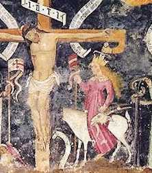 Church Santa Croce - Mondovi Piedmont - Italy.. Detail of a fresco showing the "Synagogue" as a woman, riding a beheaded he-goat, anf having the cut head in her hand, with one arm of the cross handing a dagger against the Synagogue.